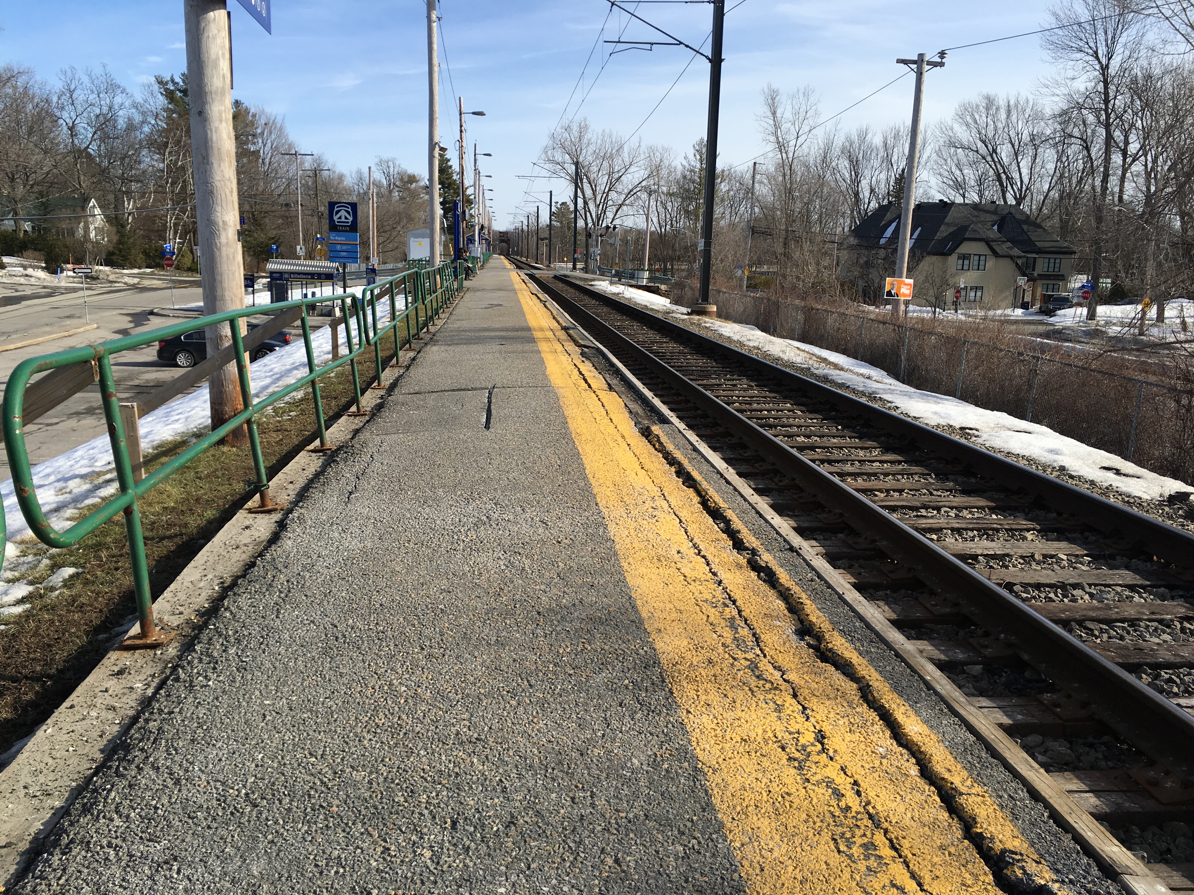 Île-Bigras AMT commuter train station